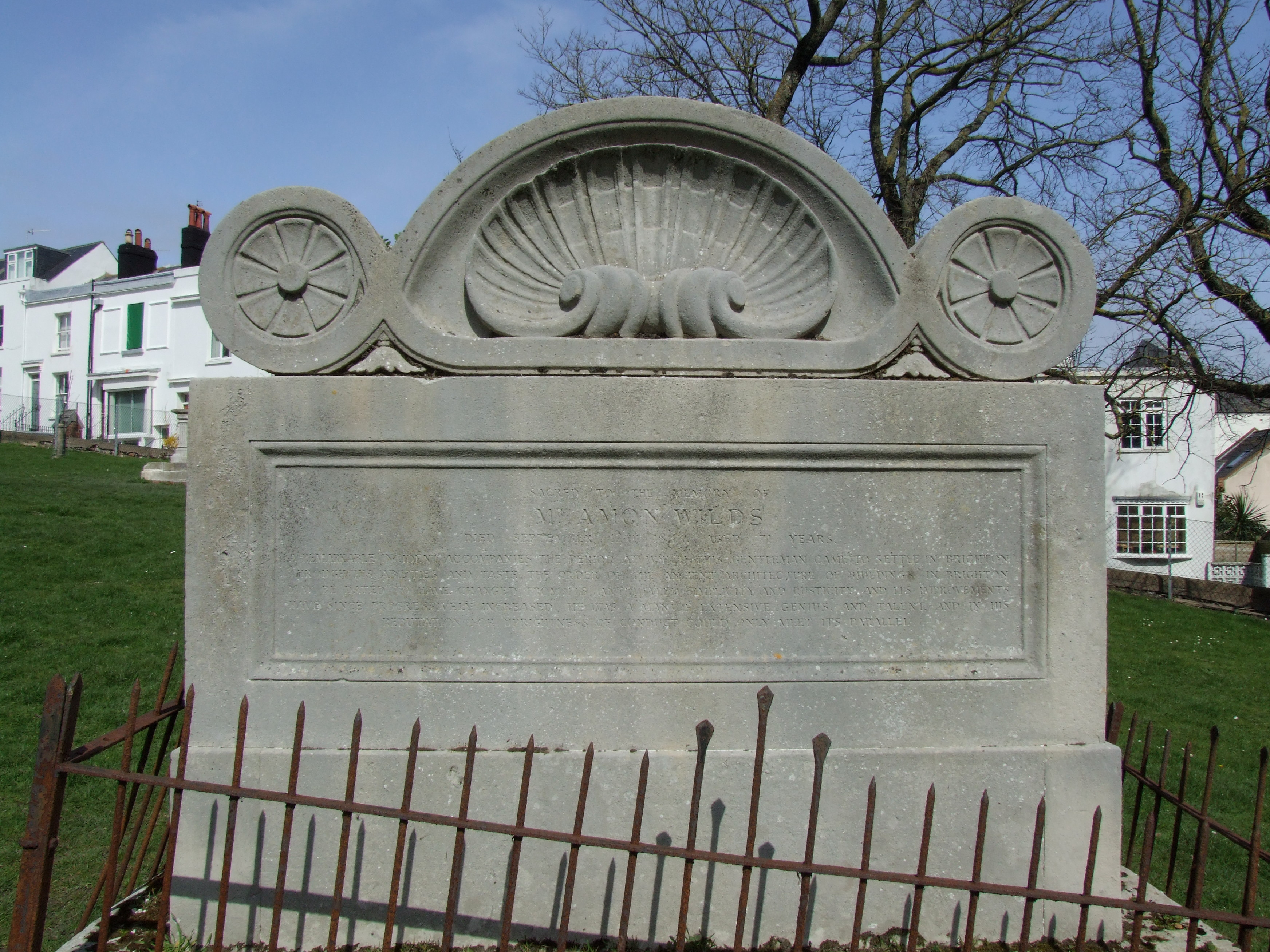 Amon Wilds gravestone in St Nicholas' churchyard, Brighton. Despite what has been published on Wikipedia before, it clearly shows that there are no Ammonite capitals.